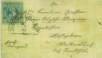 Bavaria first day cover 31.10.1849